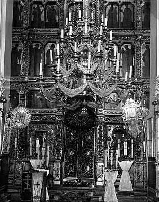 The icon screen of Murom Cathedral